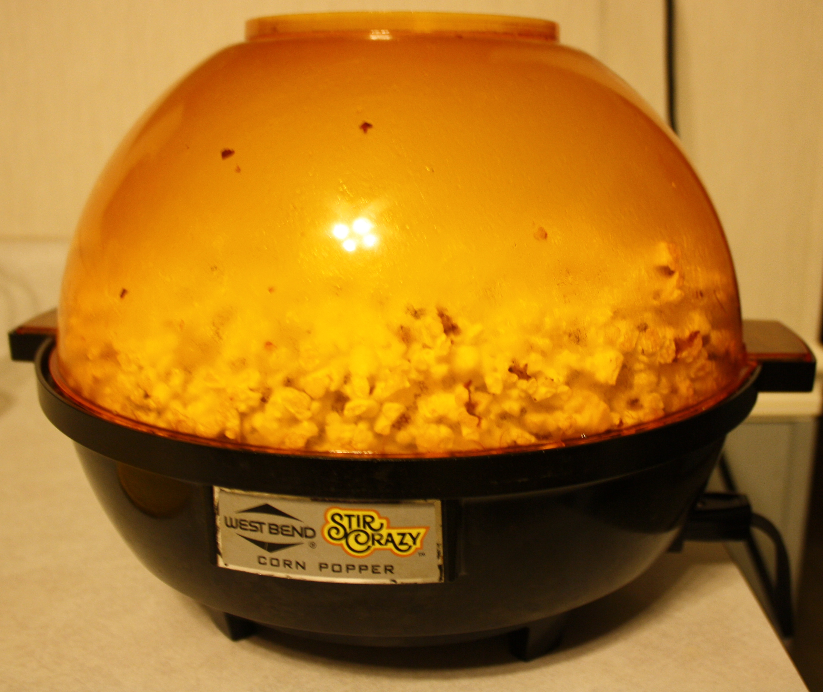 An older model West Bend Industries "Stir Crazy" popcorn popper while popping a batch of popcorn